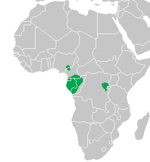 (Range of Gorilla spp, not of Pan spp)